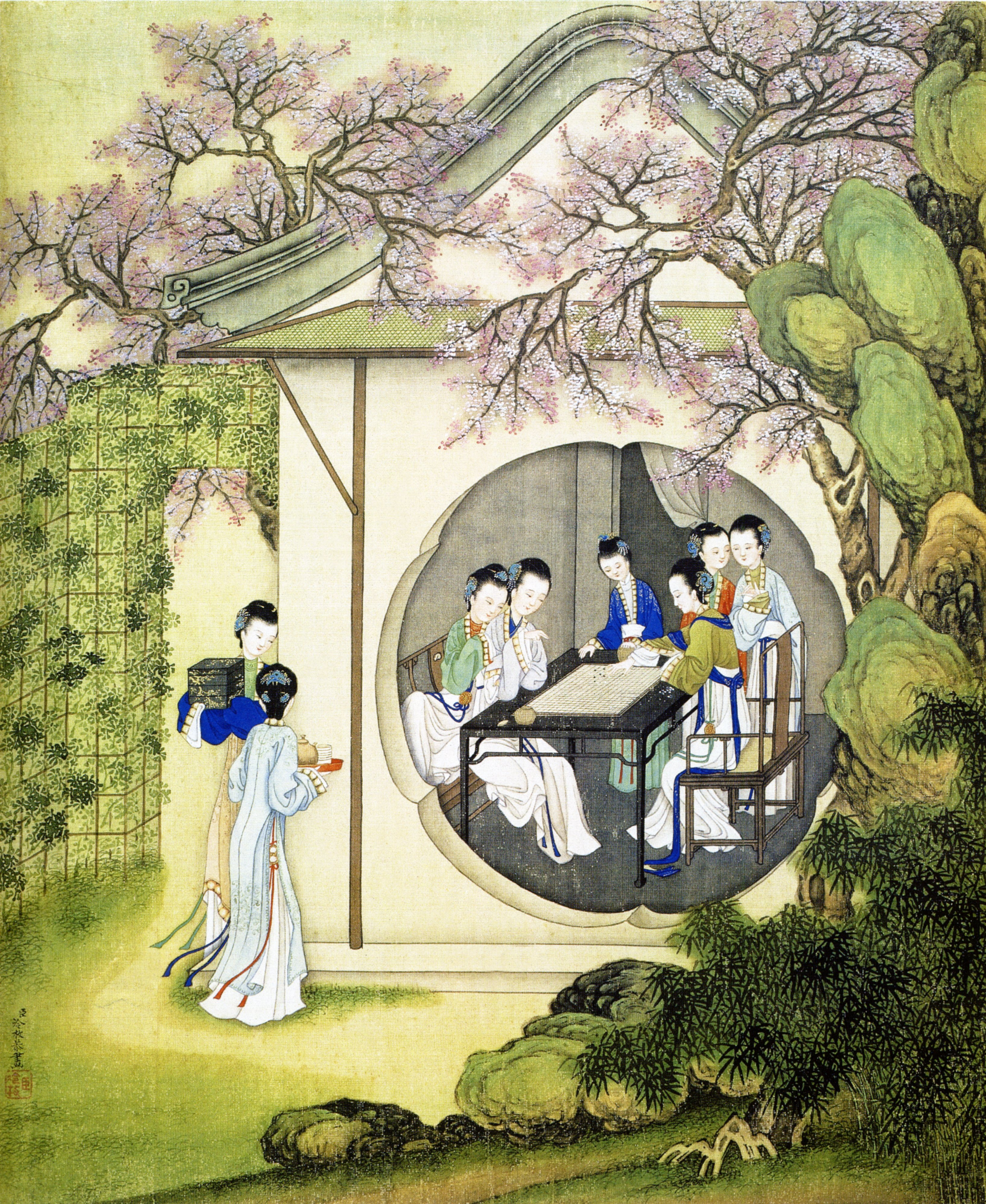 Leaf 24 and 25 from "Collected Album of Paintings" (書幅集冊)Ink and color on silk. Width 31.3 cm, Height 38.4m. Located in National Palace Museum, Taipei.